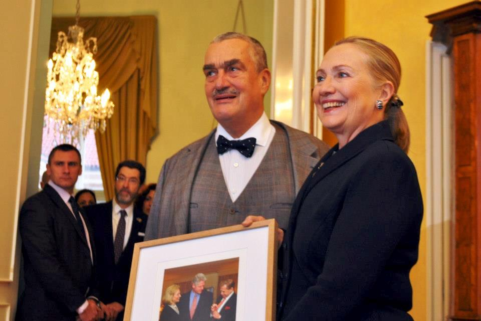 U.S. Secretary of State Hillary Rodham Clinton is presented with a photograph of a meeting of Secretary Clinton and President Bill Clinton with the late Czech President Vaclav Havelwith by Czech Foreign Minister Karel Schwarzenberg in Prague, Czech Republic, December 3, 2012. [State Department photo/ Public Domain]